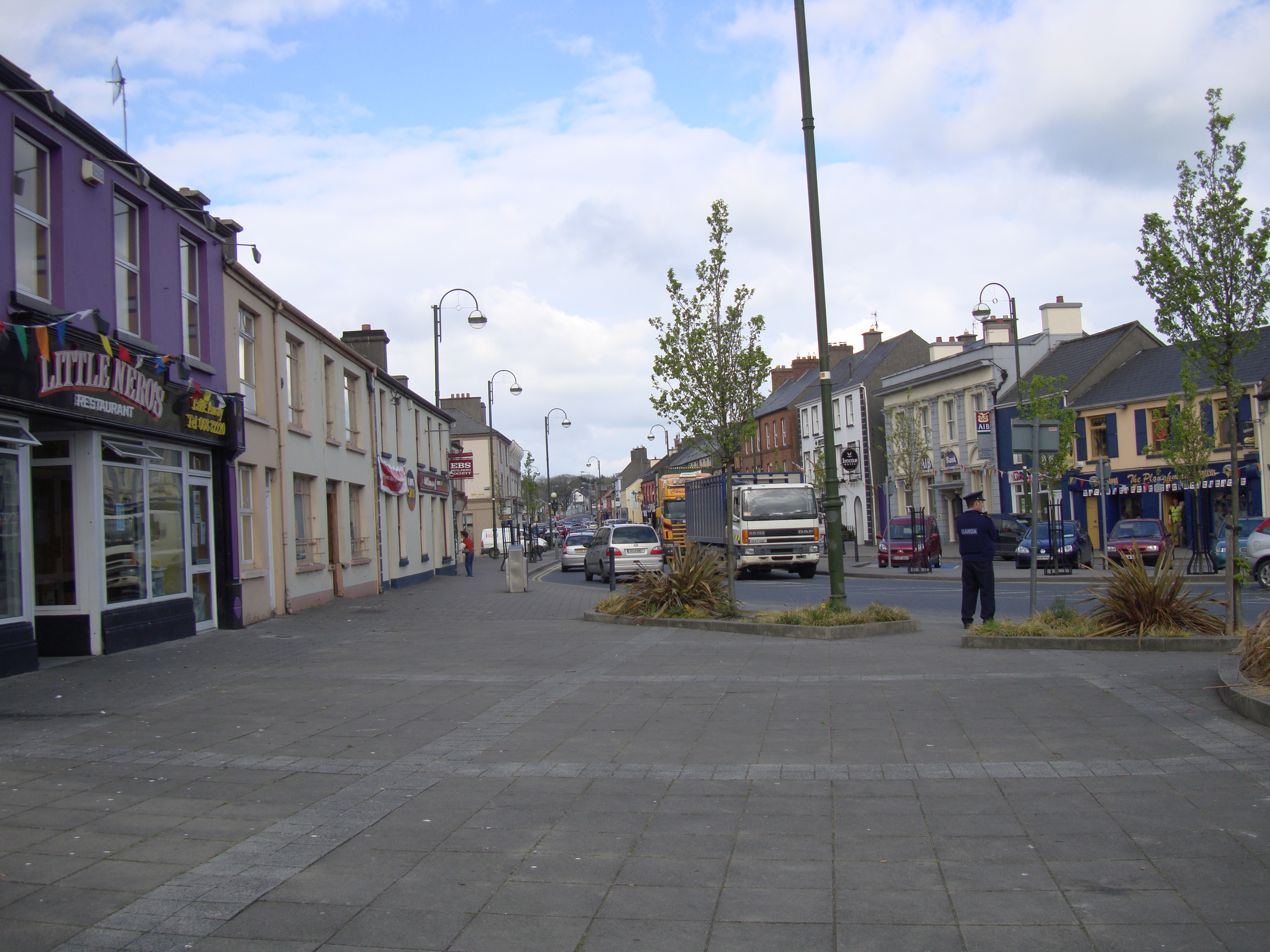 Photograph of Abbeyfeale town centre